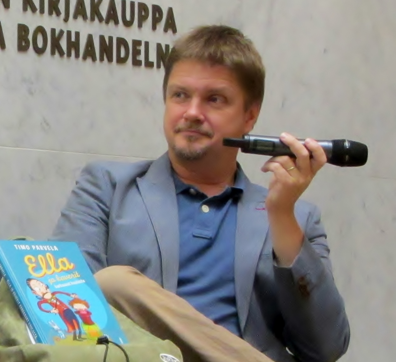 Finnish writer Timo Parvela on The Night of The Arts in Helsinki 2014